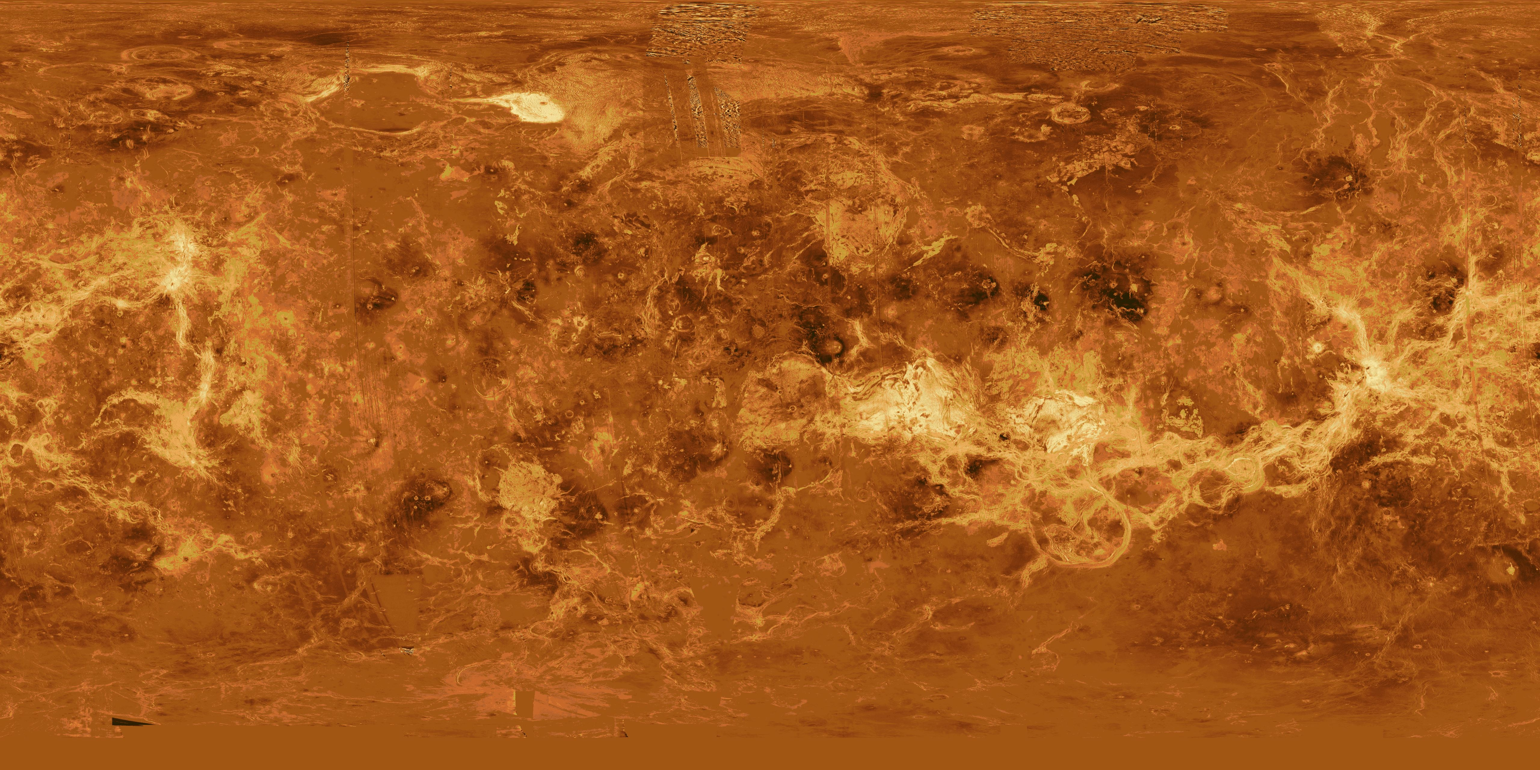 This image is a composite of the complete radar image collection obtained by the Magellan mission. The Magellan spacecraft was launched aboard space shuttle Atlantis in May 1989 and began mapping the surface of Venus in September 1990. The spacecraft continued to orbit Venus for four years, returning high- resolution images, altimetry, thermal emissions and gravity maps of 98 percent of the surface. Magellan spacecraft operations ended on October 12, 1994, when the radio contact was lost with the spacecraft during its controlled descent into the deeper portions of the Venusian atmosphere. Venus is displayed in this simple cylindrical map of the planet's surface. The right and left edges of the image are at 240 degrees east longitude. The top and bottom of the image are at 90 degrees north latitude and 90 degrees south latitude, respectively. Magellan synthetic aperture radar mosaics are mapped onto a rectangular latitude- longitude grid to create this image. Data gaps are filled with Pioneer-Venus Orbiter altimetric data, or a constant mid-range value. Simulated color is used to enhance small-scale structure. The simulated hues are based on color images recorded by the Soviet Venera 13 and 14 spacecraft. At the top, left of center, the bright region is Maxwell Montes, the highest mountain range on Venus. Extending along the equator to the right of center is Aphrodite Terra, a large highland region on Venus. The scattered dark patches in this image are halos surrounding some of the younger impact craters. This global data set reveals a number of craters consistent with an average Venus surface age of 300 million to 500 million years.